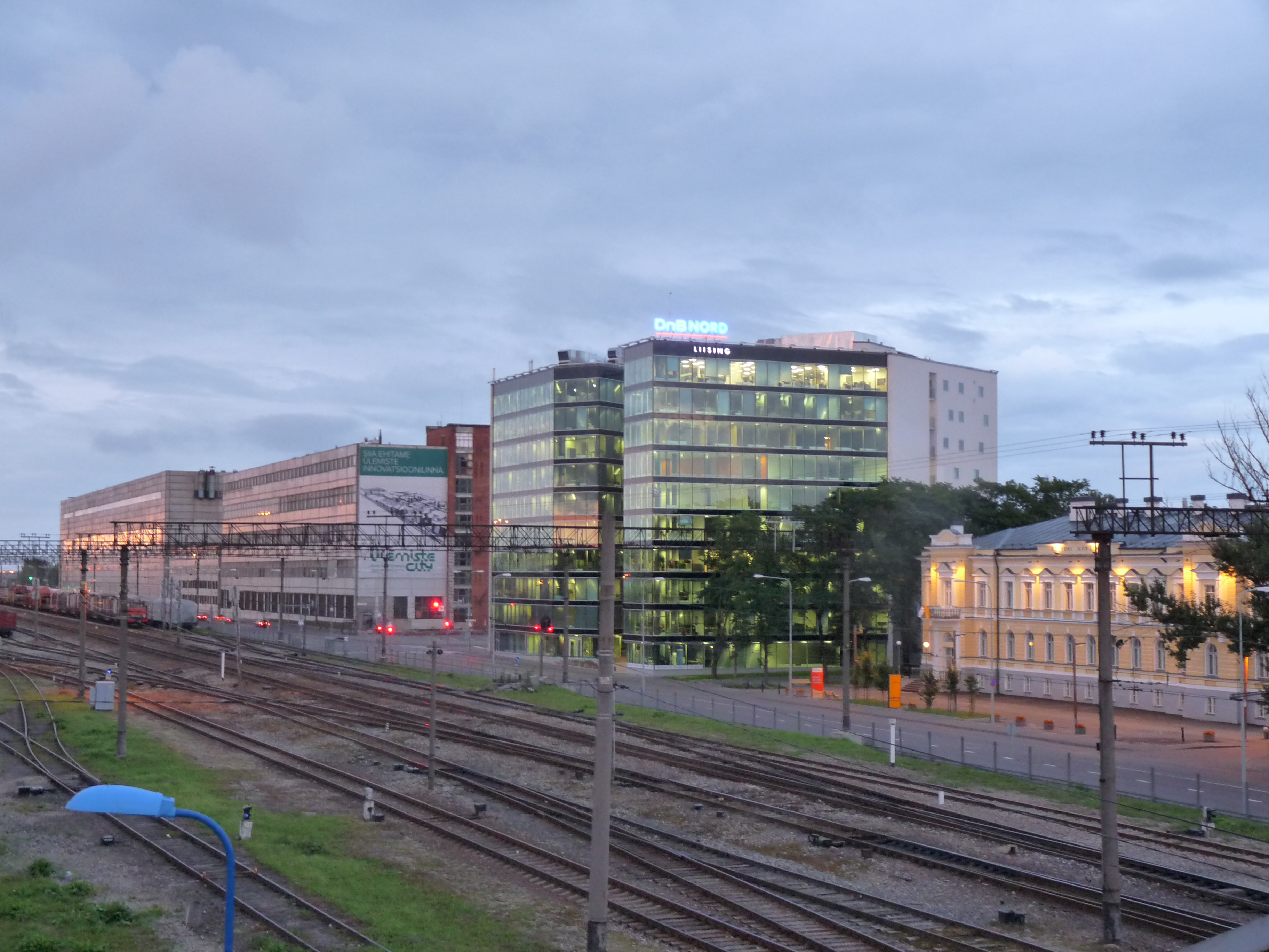 Suur-Sõjamäe street in Ülemiste